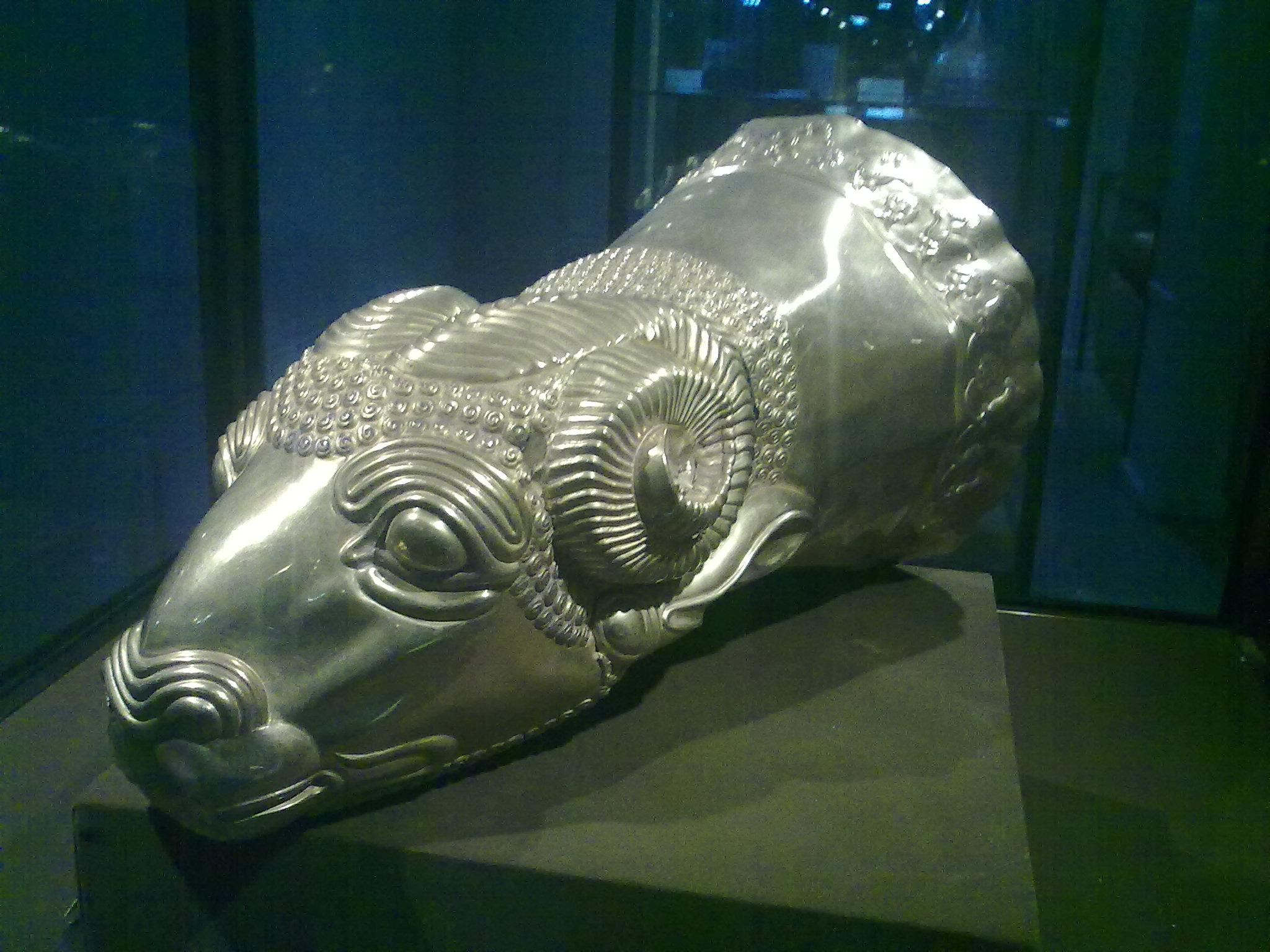 Median rhyton in shape of rams head gold